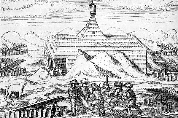 Het Behouden Huys